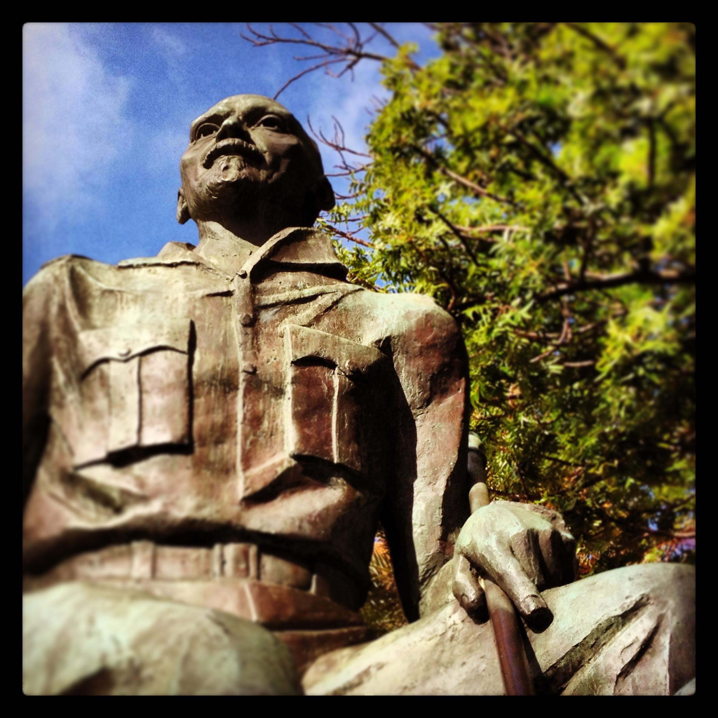 A more classic and representational depiction of Jan Smuts dominates the start of Government Avenue at the juncture of Wale and Adderley Streets in Cape Town. This media shows a South African Protected Site with SAHRA file reference 9/2/018/0242.